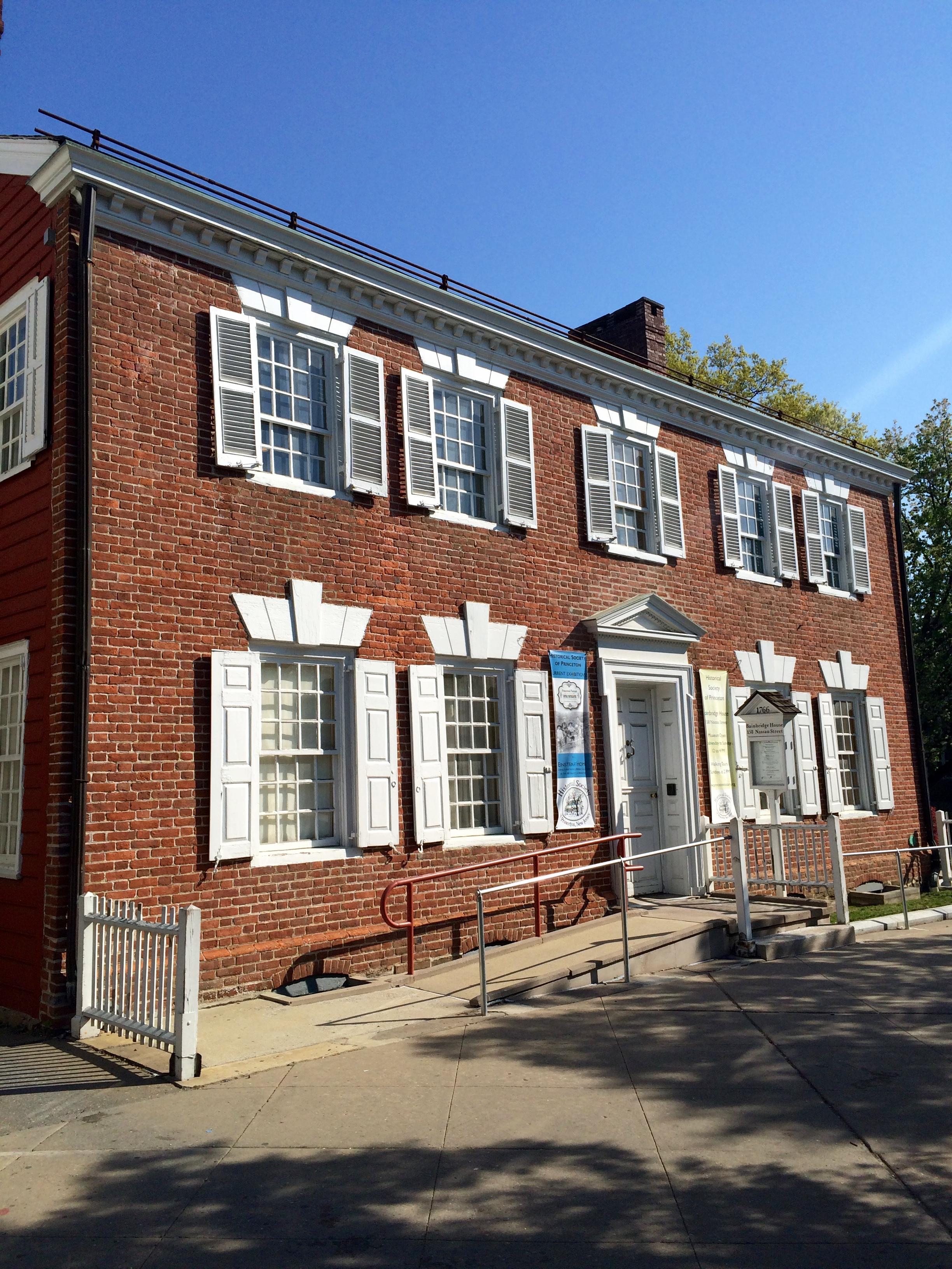 Built by Job Stockton of brickwork with wooden keystone lintels to a central hall plan, it retains much of its original woodwork and corner fireplaces. It was the birthplace of Commodore William Bainbridge and served as the headquarters of the British in 1776 before the Battle of Princeton. It has long served as the museum of the Princeton Historical Society.